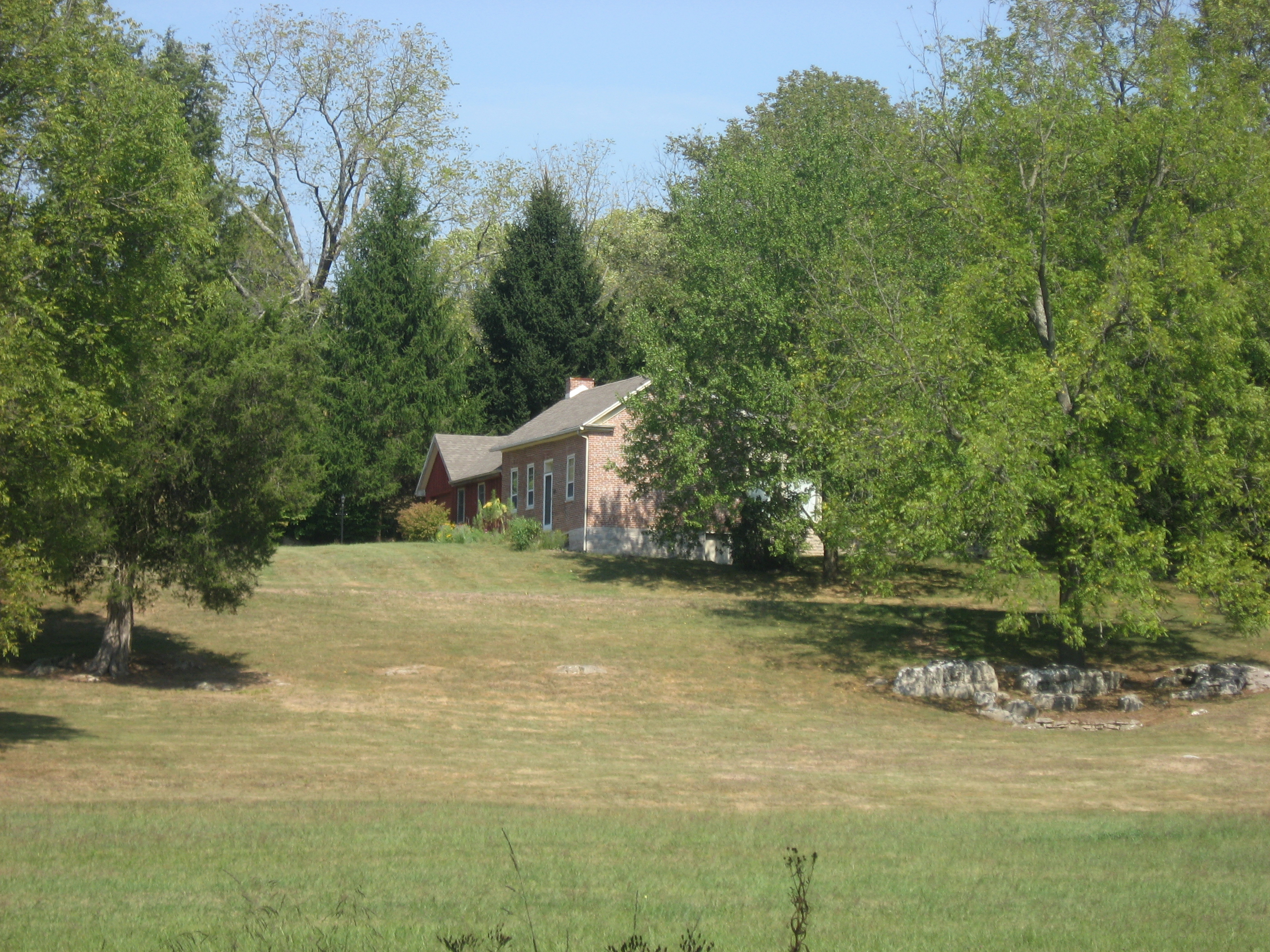 Front of the Joseph Mitchell House, located at 7008 Ketcham Road west of Smithville in Clear Creek Township, Monroe County, Indiana, United States. Built in 1835, it is listed on the National Register of Historic Places.